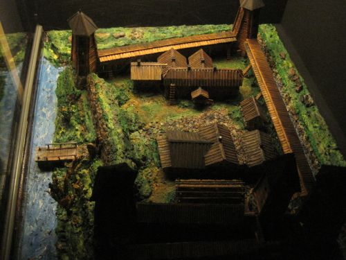 Wooden castle of Oulu, diorama in The Northern Ostrobothnia museum (Pohjois-Pohjanmaan museo in Finnish). Made Ahti Paulaharju in 1950's.